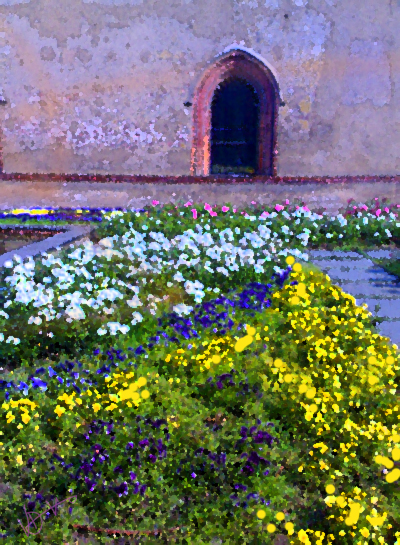 Digital painting of original photograph. Milan Sforza castle, garden detail. VBRITTO 2008.